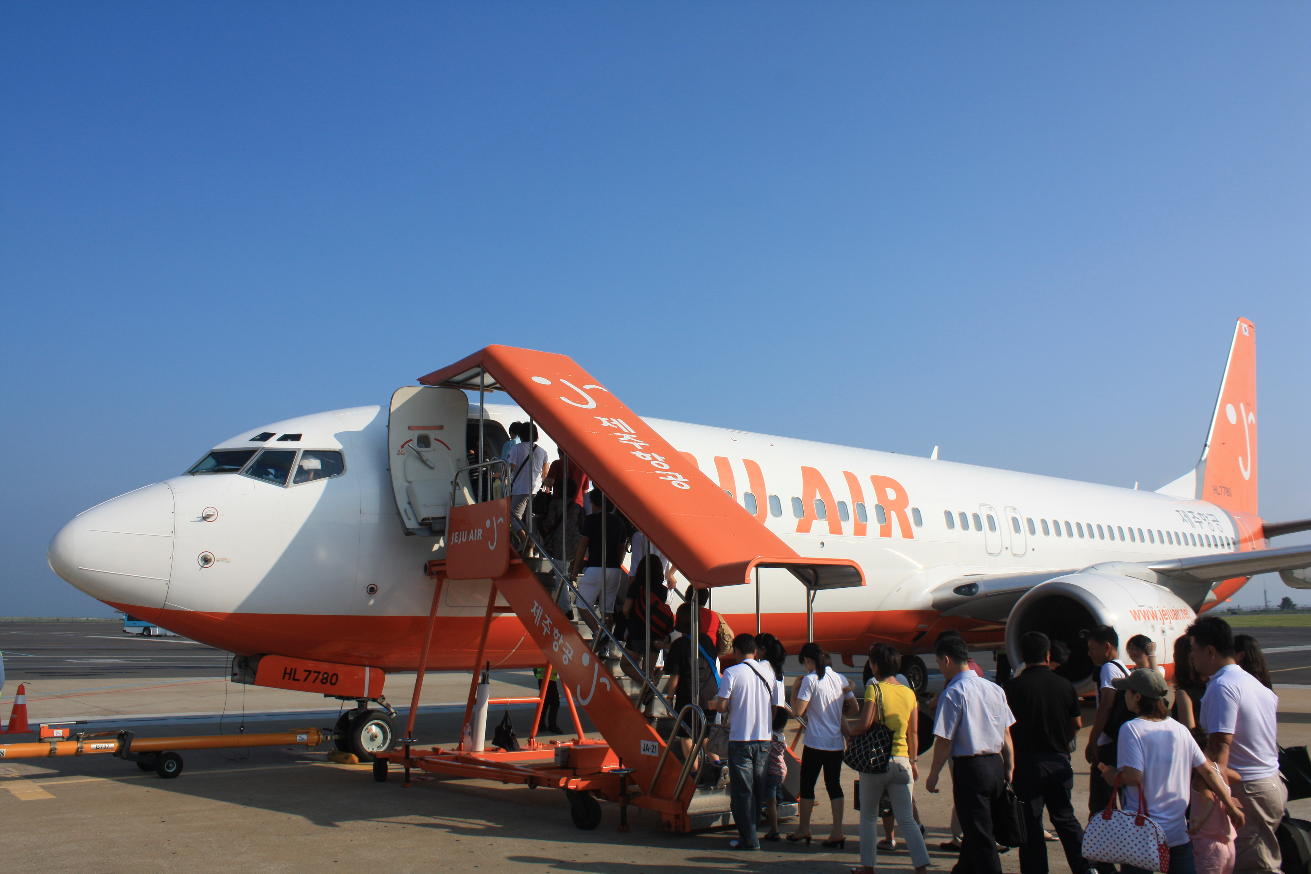 Jeju Air at Jeju Airport